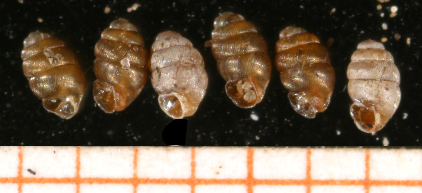 Photo of Vertigo angustior. Scale in mm. Locality: Germany: Schleswig-Holstein, Strandsee N of Aassee. Date: 13-10-2004.